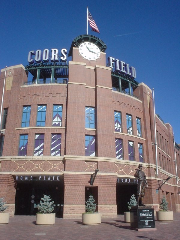 Main Entrance of Coors Field in Denver, Colorado